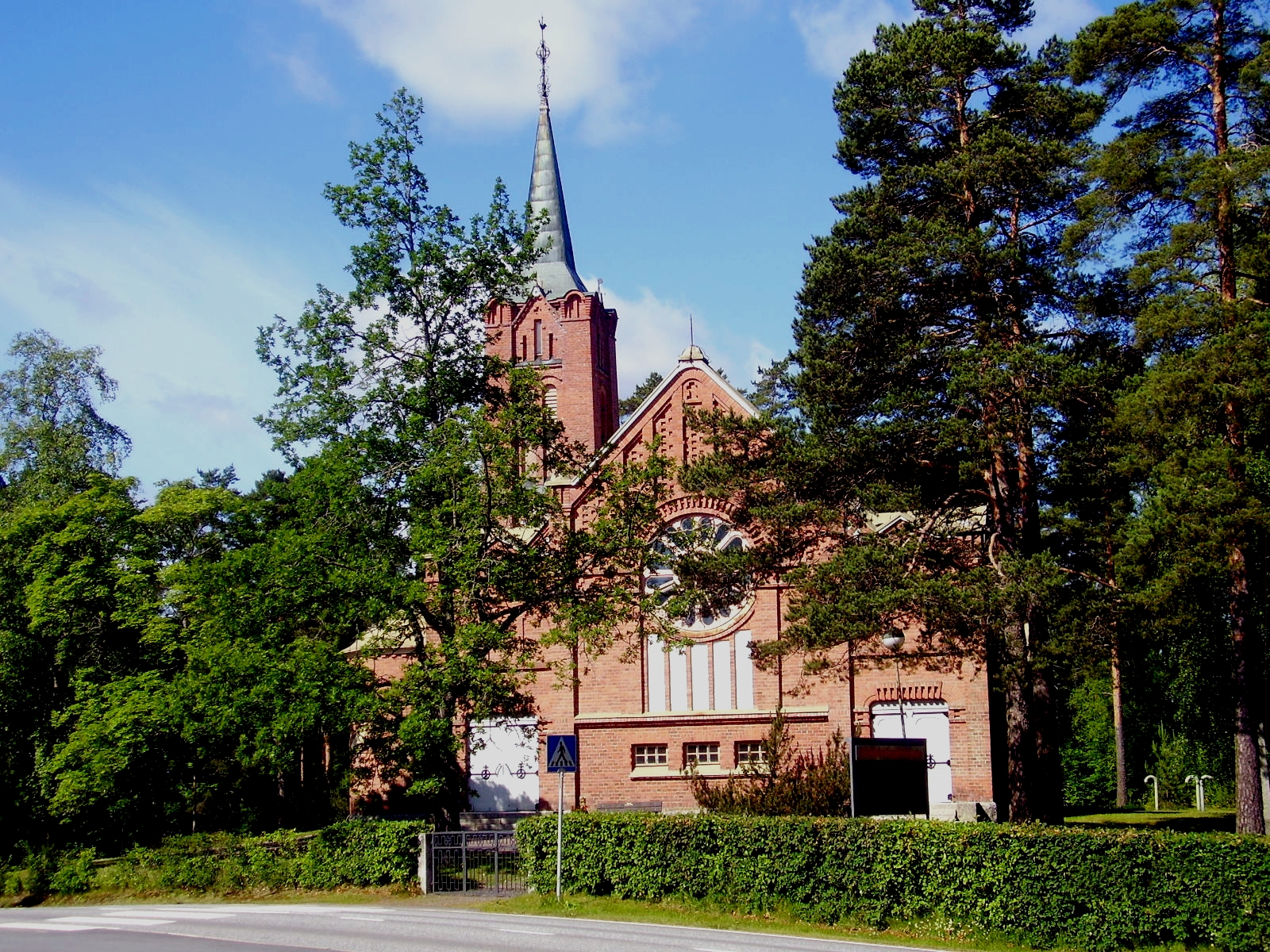 Church in Kylmäkoski.